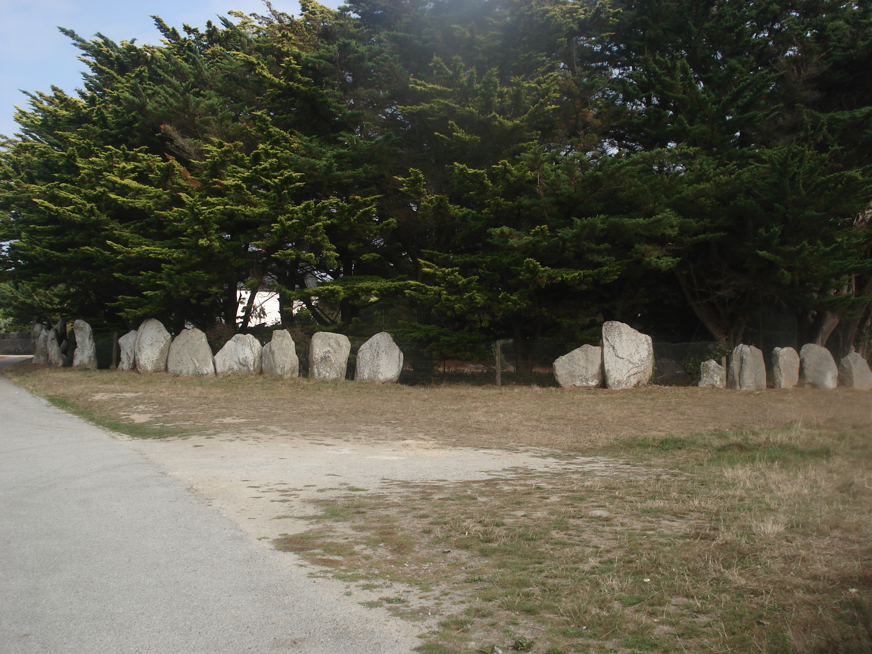 Cromlech de Kerbourgnec